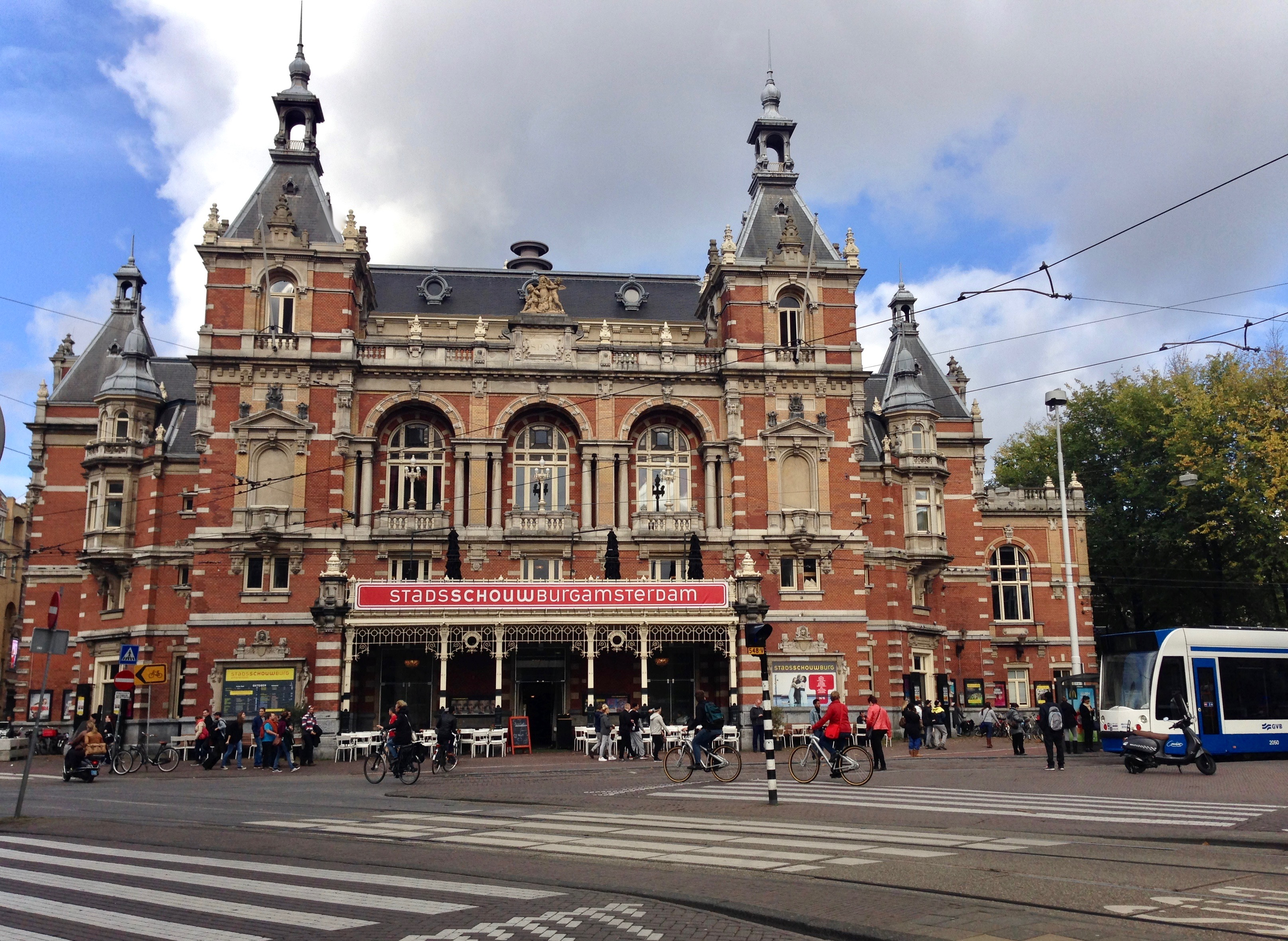 Stadsschouwburg Amsterdam